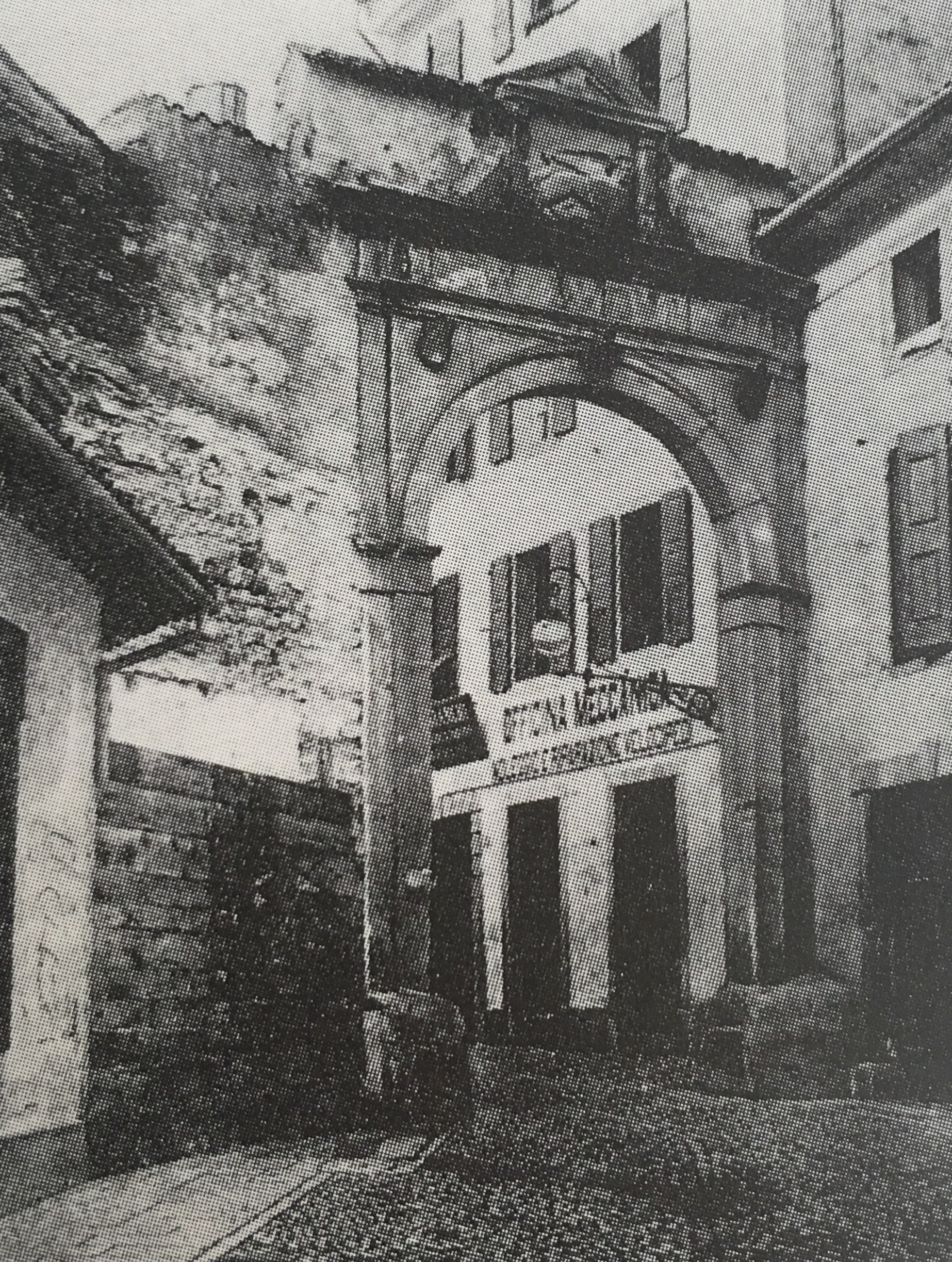 Arco Grimani